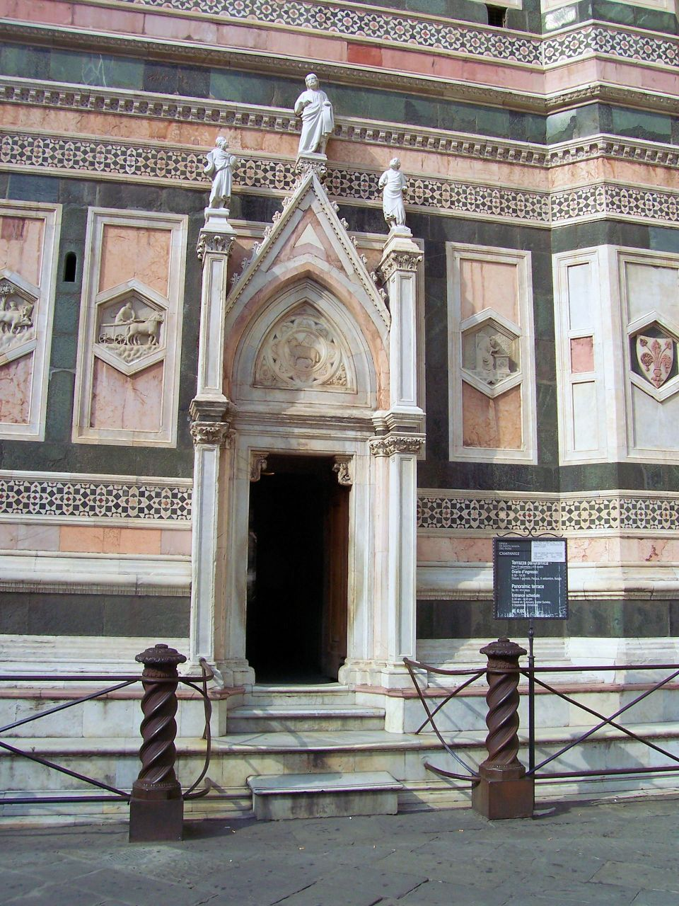 Bell tower entrance, Firenze, ItalyCampanile3